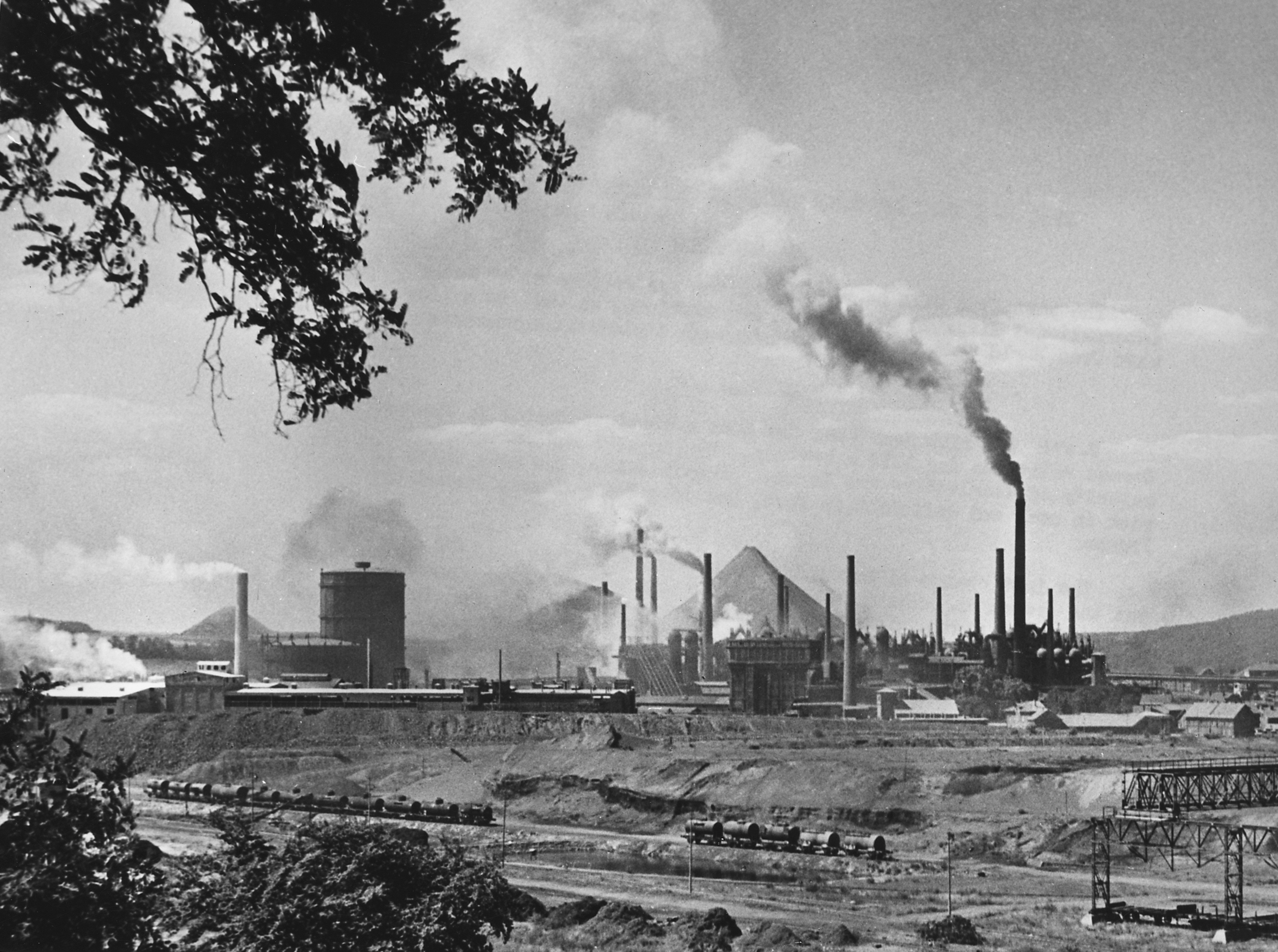 Original description: "France. Shown here is the Voelklingen Iron and Steel Works, largest steel mill in the Saar. In addition to numerous steel factories, the Saar has many coal mines with almost a quater of its working population occupied in mining, ca. 1948 - ca. 1955" "Part Of: Series: Photographs of Marshall Plan Activities in Europe and Africa, compiled ca. 1948 - ca. 1989, documenting the period 1945 - ca. 1954"